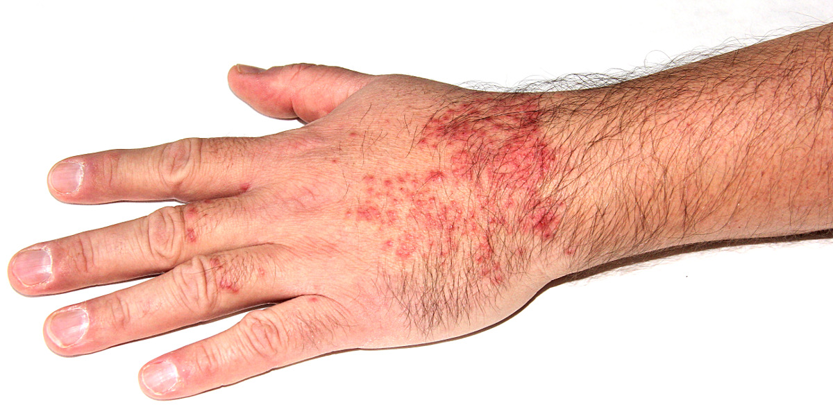 Cercarial dermatitis caused by larval stages of bird schistosome Trichobilharzia szidati which penetrated human skin. Manifestation 4 days after infection.